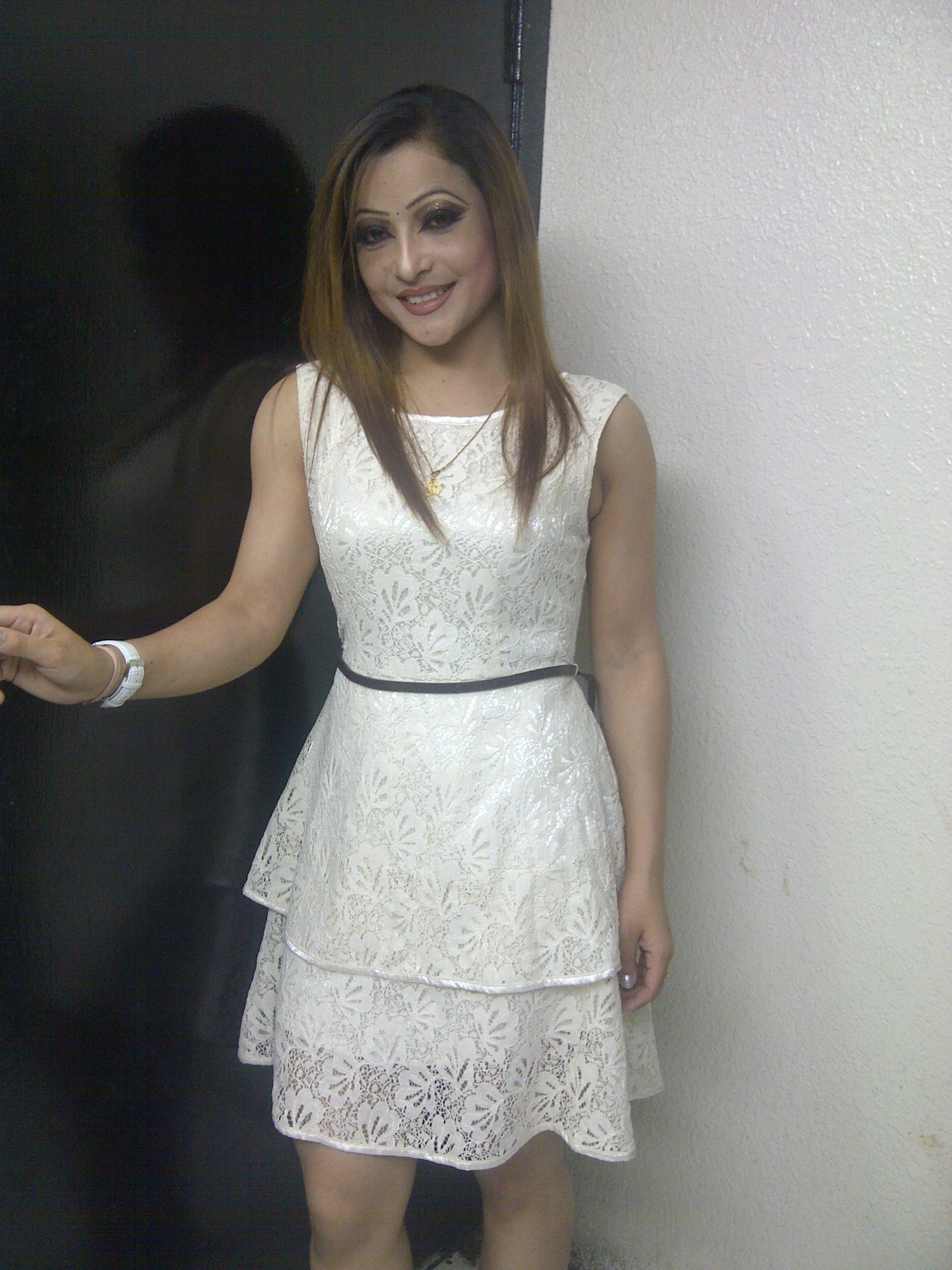 Photo taken during cultural program tour.